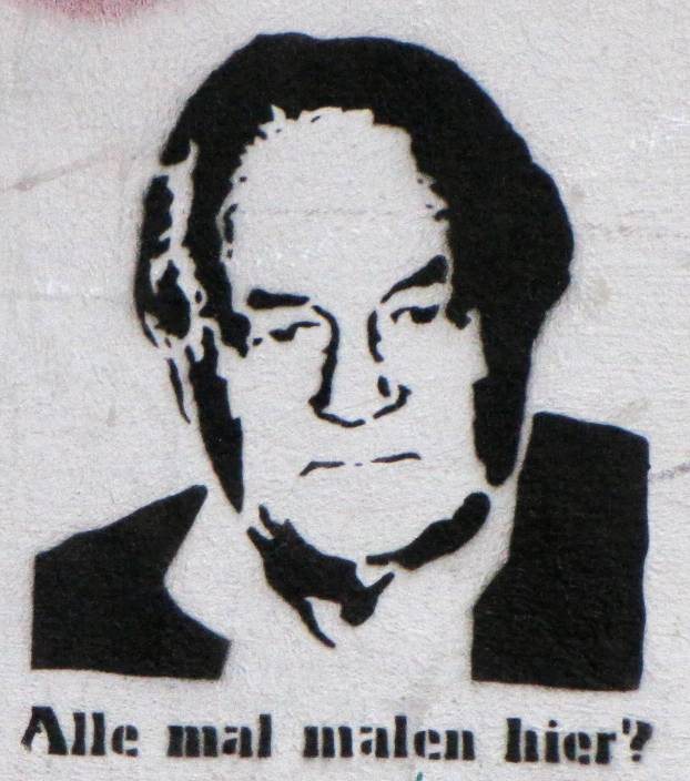 Jan Loh, reproduced as stencil graffito, as seen at Heerstraße in Bonn